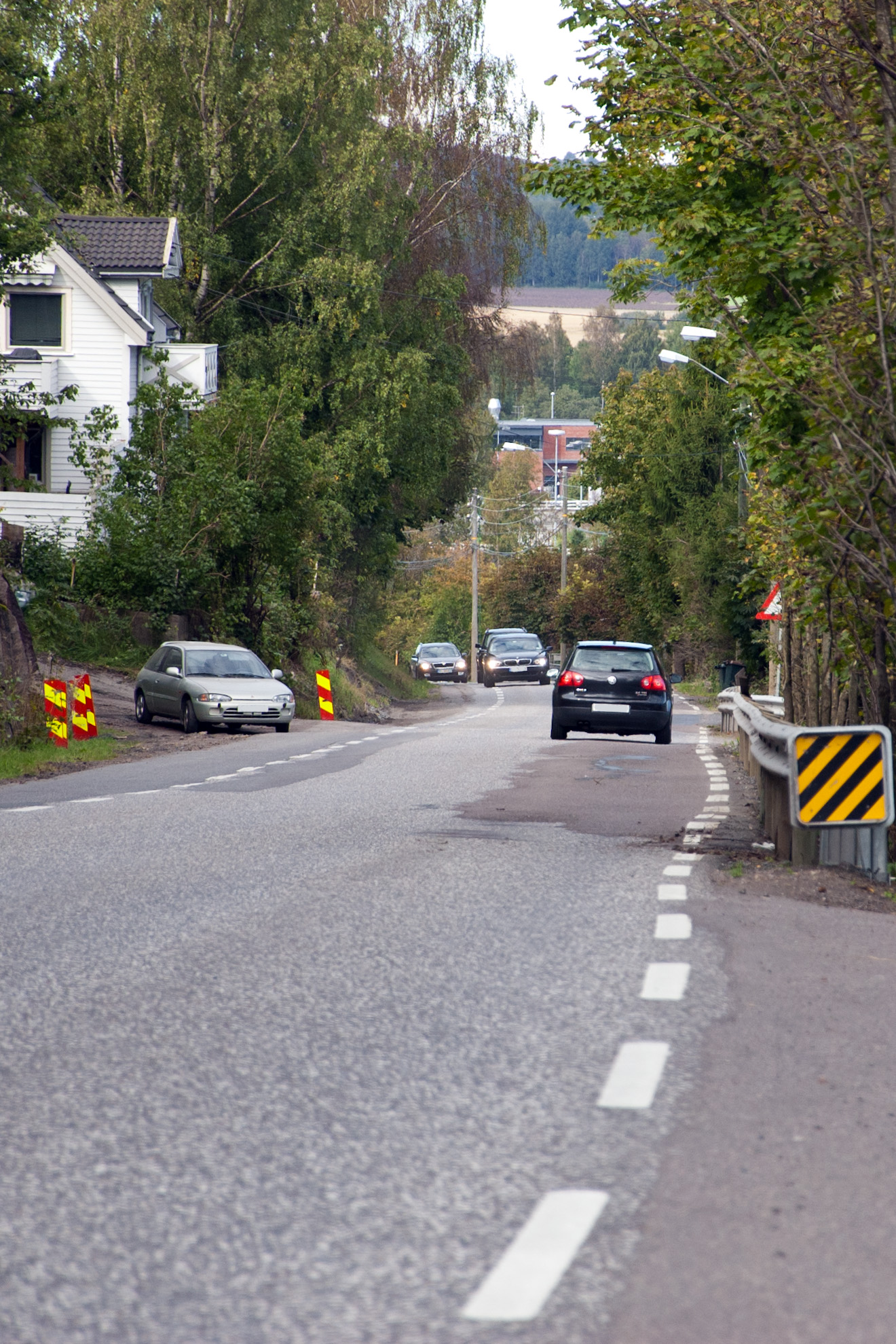 County road 303 "Hogsnesbakken" at Vear in Tønsberg, Vestfold county, Norway